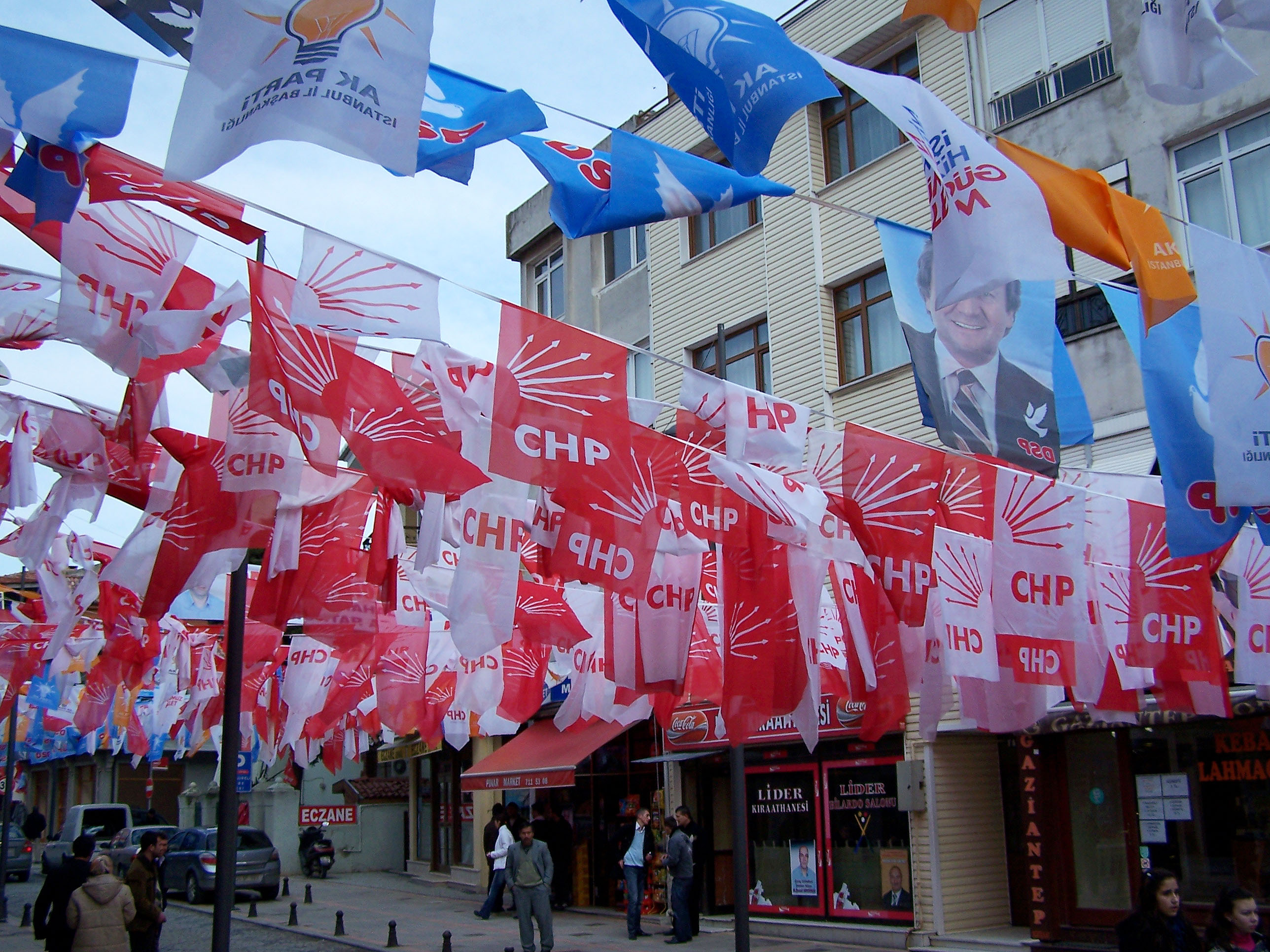 Flags of political parties before the Turkish municipal elections in Şile, Turkey. The most visible ones are CHP (Cumhuriyet Halk Partisi, Republican People's Party), DSP (Demokratik Sol Parti, Democratic Left Party) and AKP (Adalet ve Kalkınma Partisi, Justice and Development Party) flags.